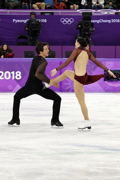 Tessa Virtue and Scott Moir at the 2018 Winter Olympic Games in PyeongChang